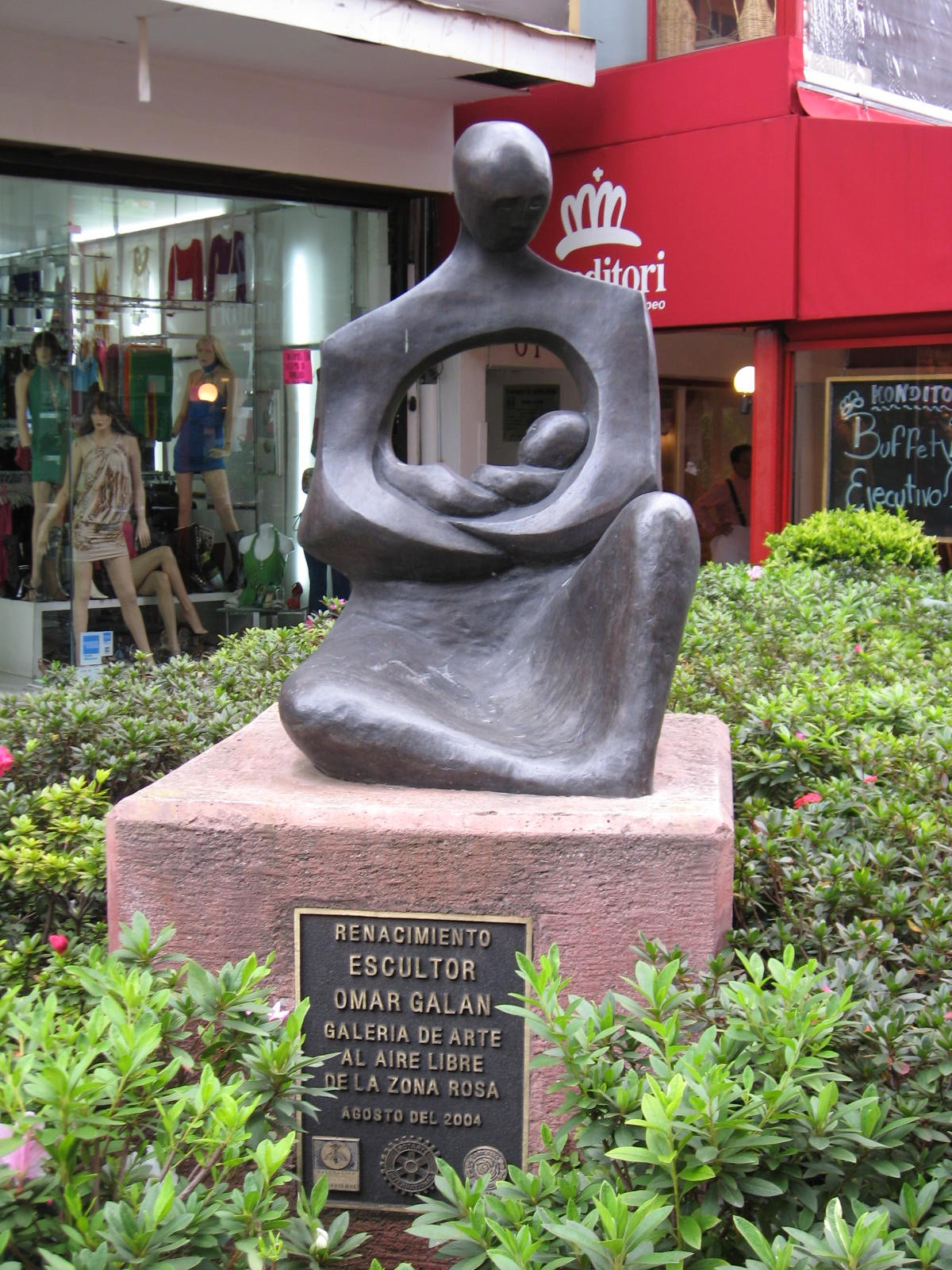 Sculpture title "Rebirth" by Omar Galan on display on Genova Street in the "Zona Rosa" in Mexico City